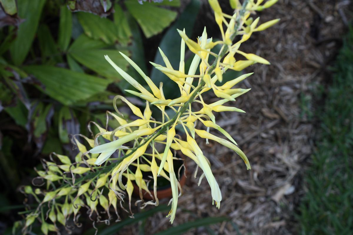 Pitcairnia xanthocalyx inflorescence